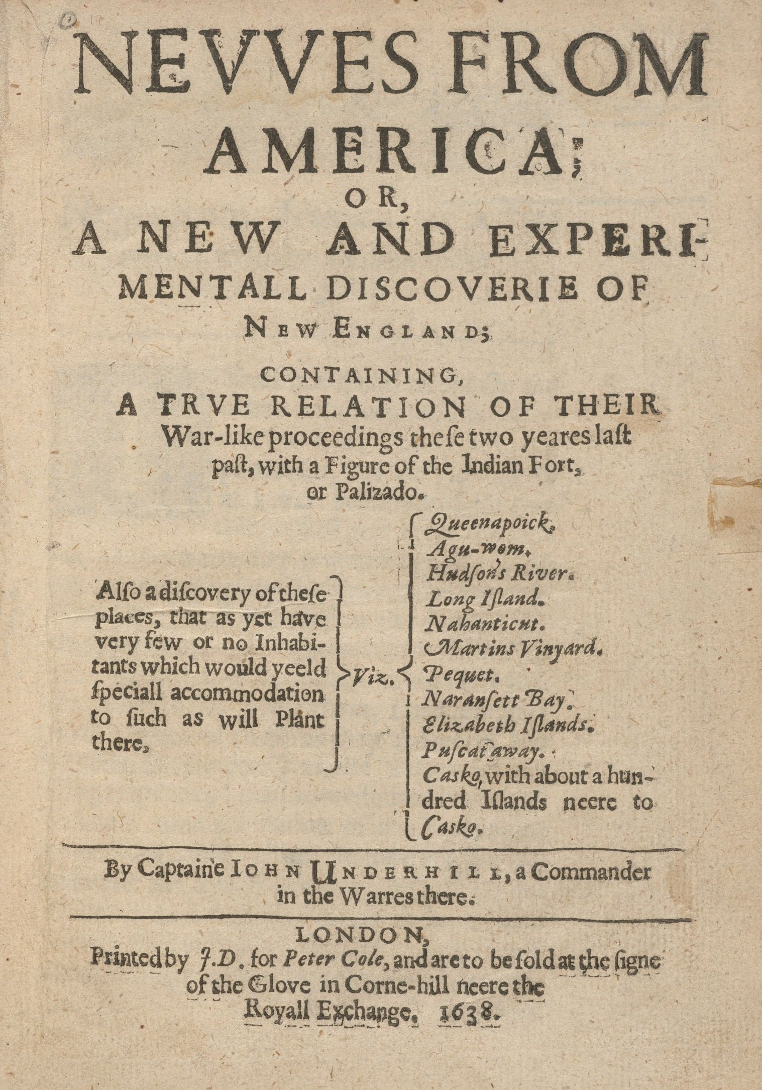 Title page from Nevves from America; or, A new and experimentall discoverie of New England, London: 1638, by John Underhil (d. 1672). STC 24518, Houghton Library, Harvard University